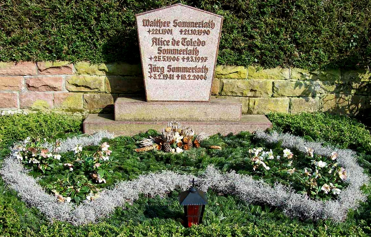 Grave of Walther Sommerlath and Alice de Toledo Sommerlath, parents of Queen Silvia of Sweden, cemetery Heidelberg-Handschuhsheim, Germany